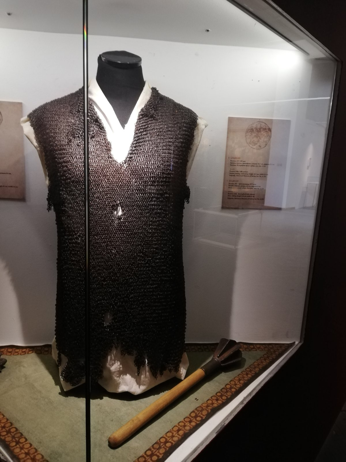 Medieval chainamail shirt worn by Serbian knights and soldiers during Nemanjic dynasty period in XII and XIII century